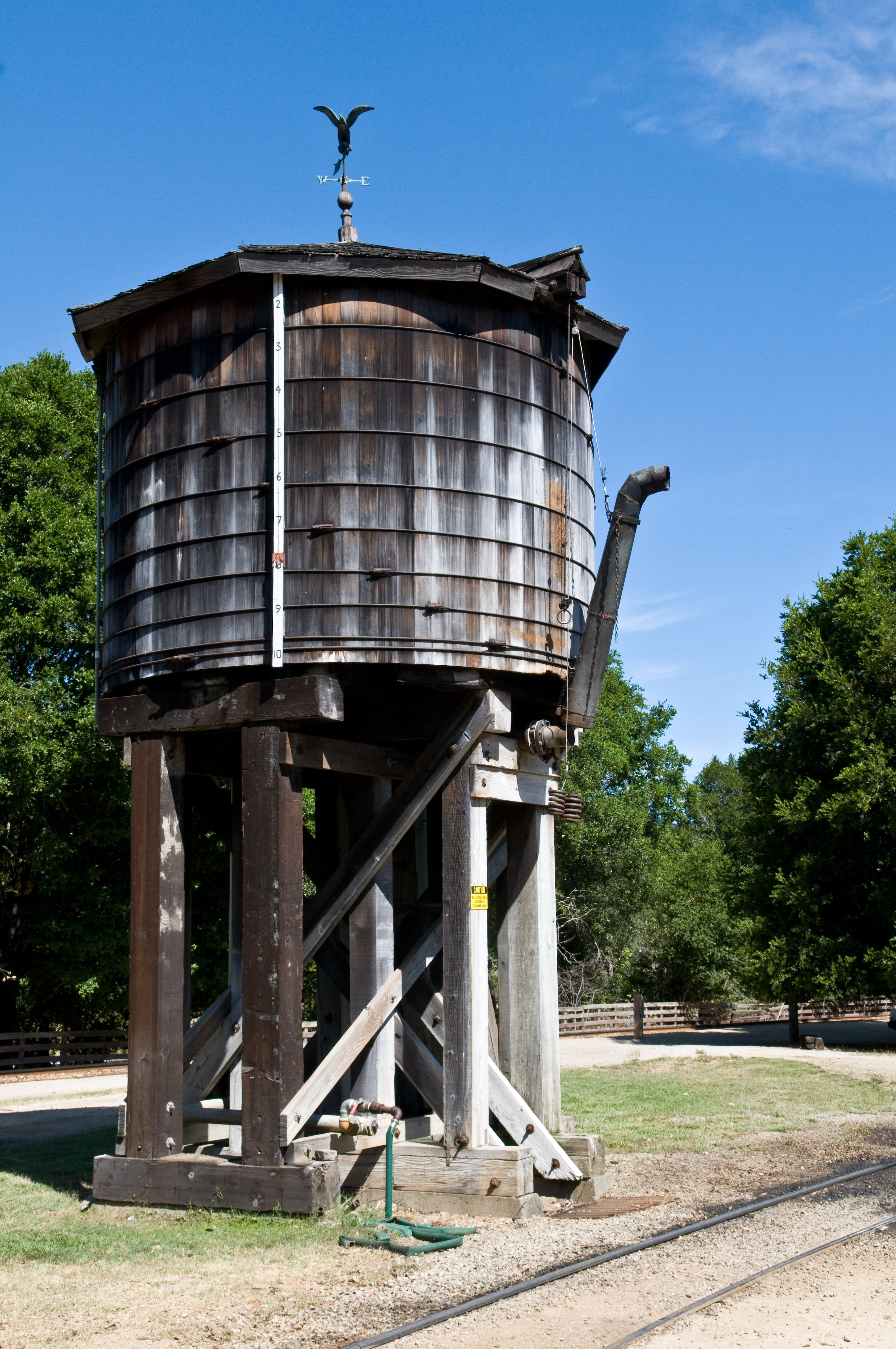 Roaring Camp & Big Trees Railroads (California) water tank